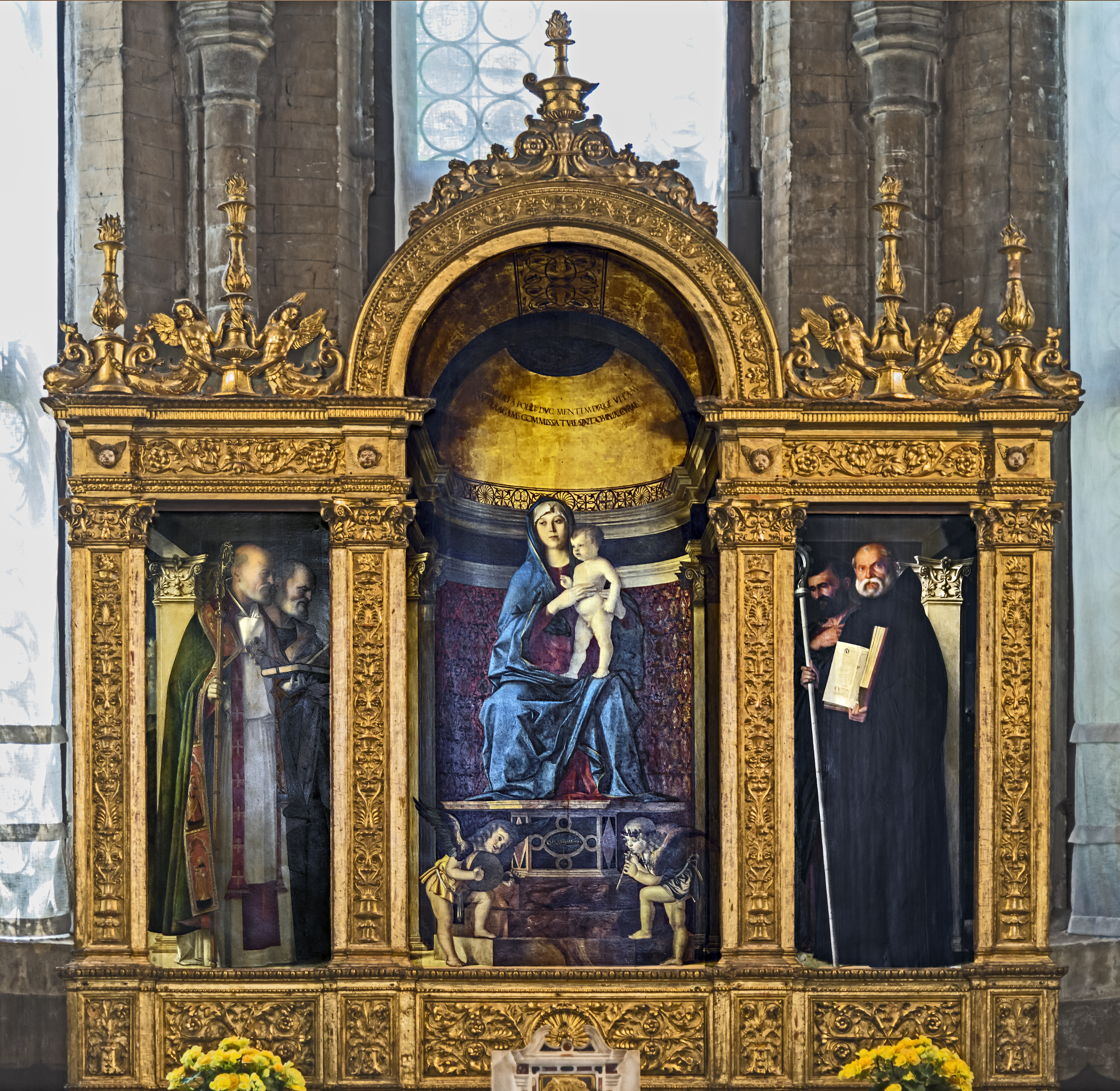 Sacristy - Triptych. Oil on panel 1488.